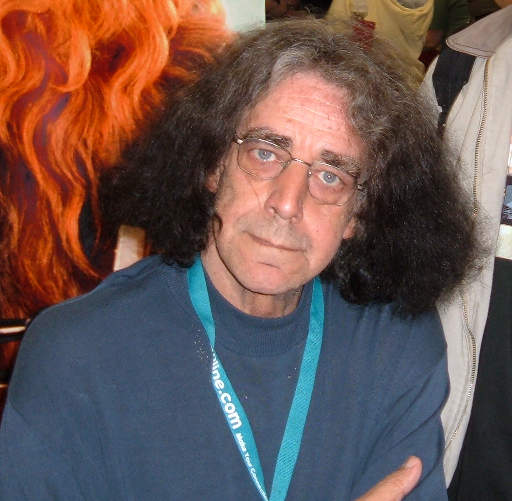 Peter Mayhew at WonderCon 2007.